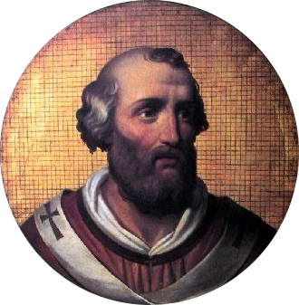 Pope Ioannes XII